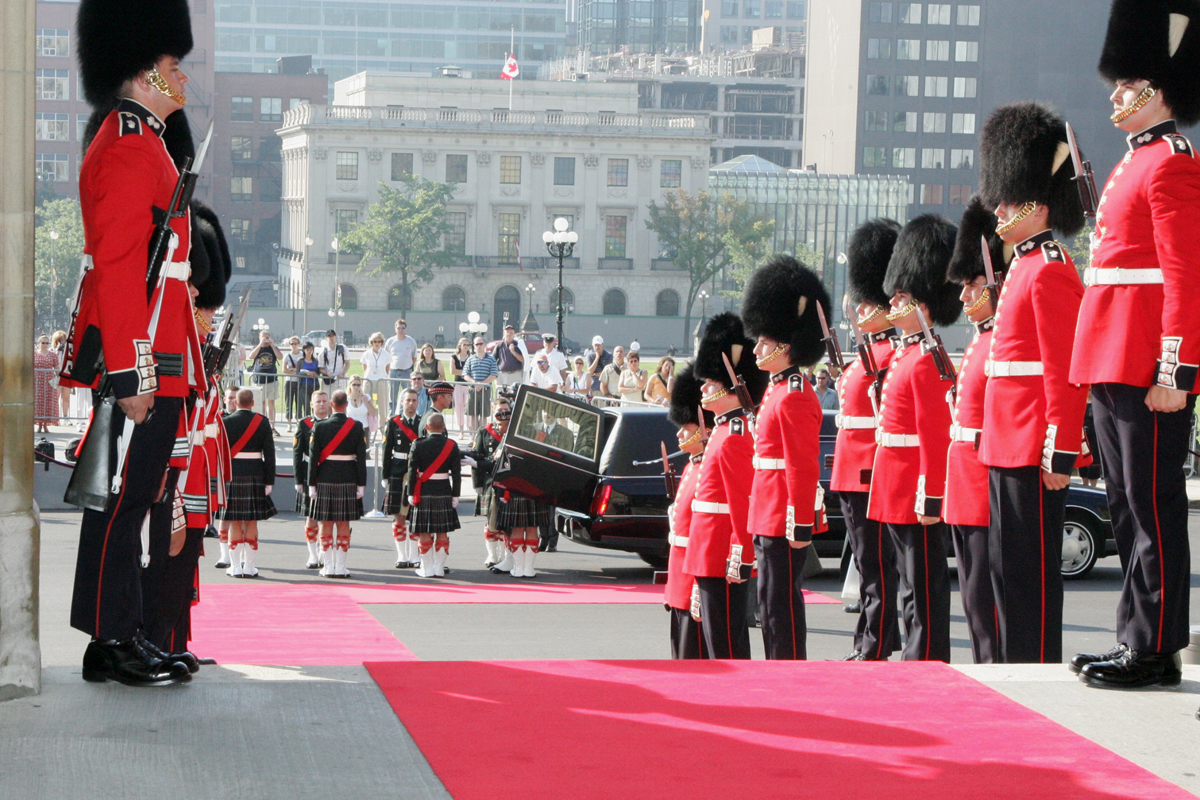 The last survivor of Canada’s 16 Second World War Victoria Cross recipients, Sergeant (Ret) Ernest Alvia “Smokey” Smith, laid in state on Parliament Hill August 9. Ottawa, Ontario, Canada.